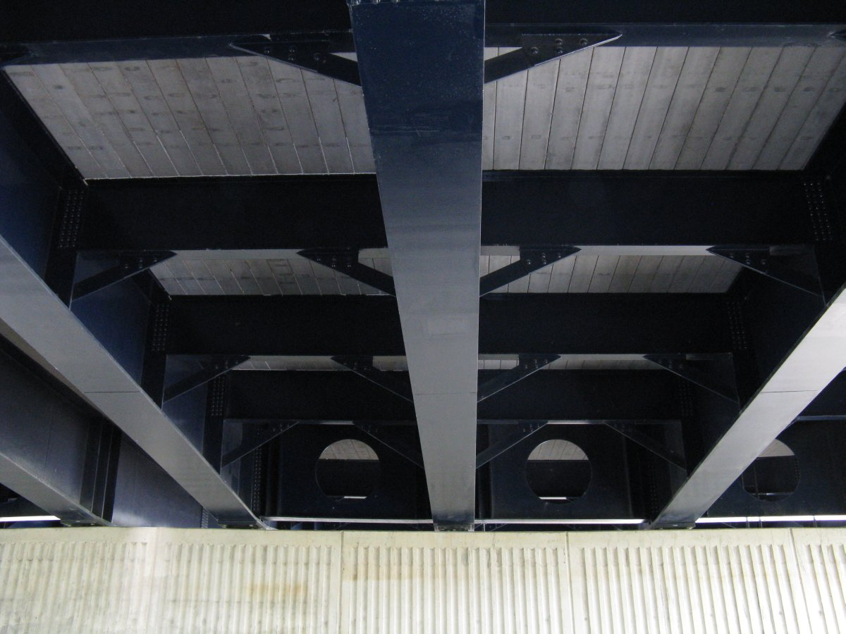 The west arch of the Surtees Bridge over the river Tees in Stockton-on-Tees.